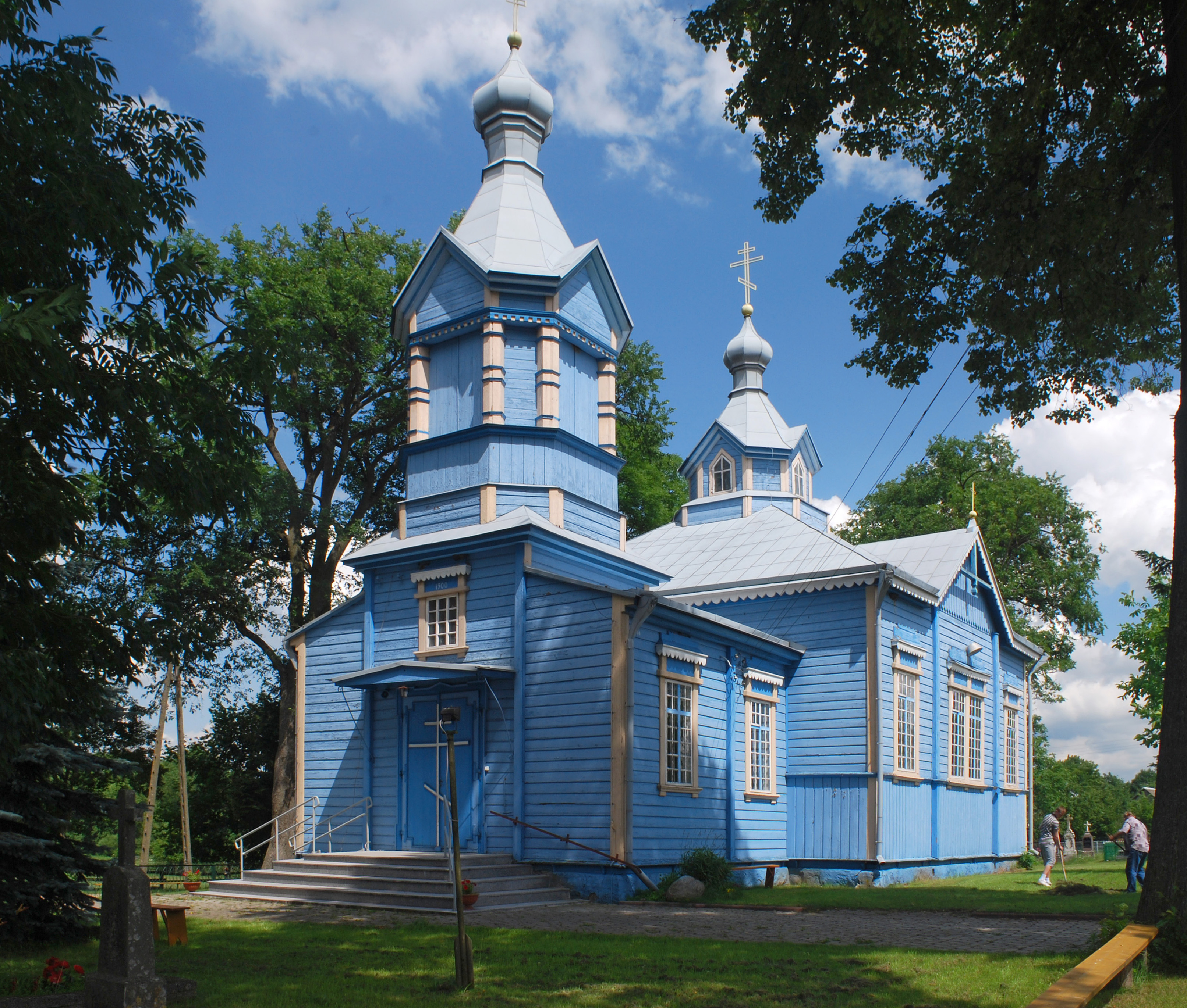 This photo from Podlaskie Voievodeship was taken during Polish Wikiexpedition 2009 set up by Wikimedia Polska Association. The making of this document was supported by Wikimedia Polska. Cerkiew w Milejczycach